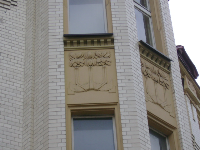 art noveau detail from building in Rybnik.